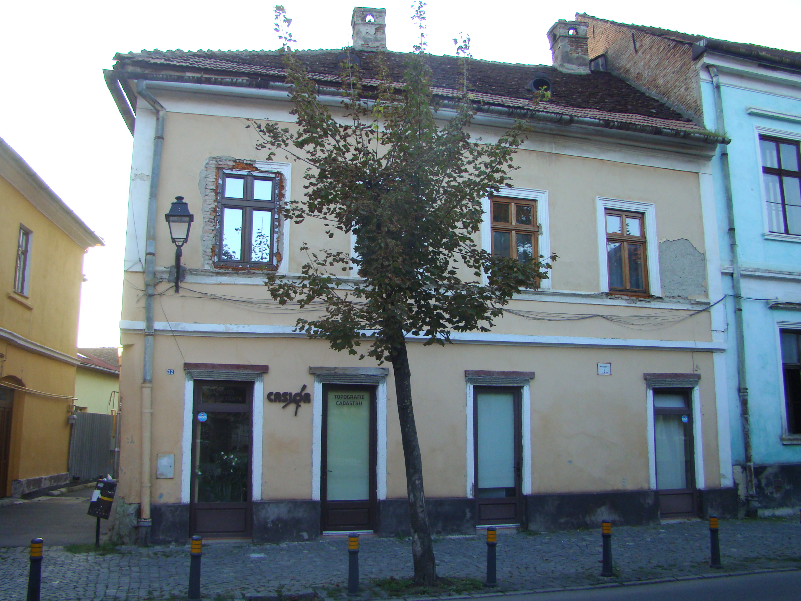 House, historic monument, in Bistrița, Nicolae Titulescu street 32